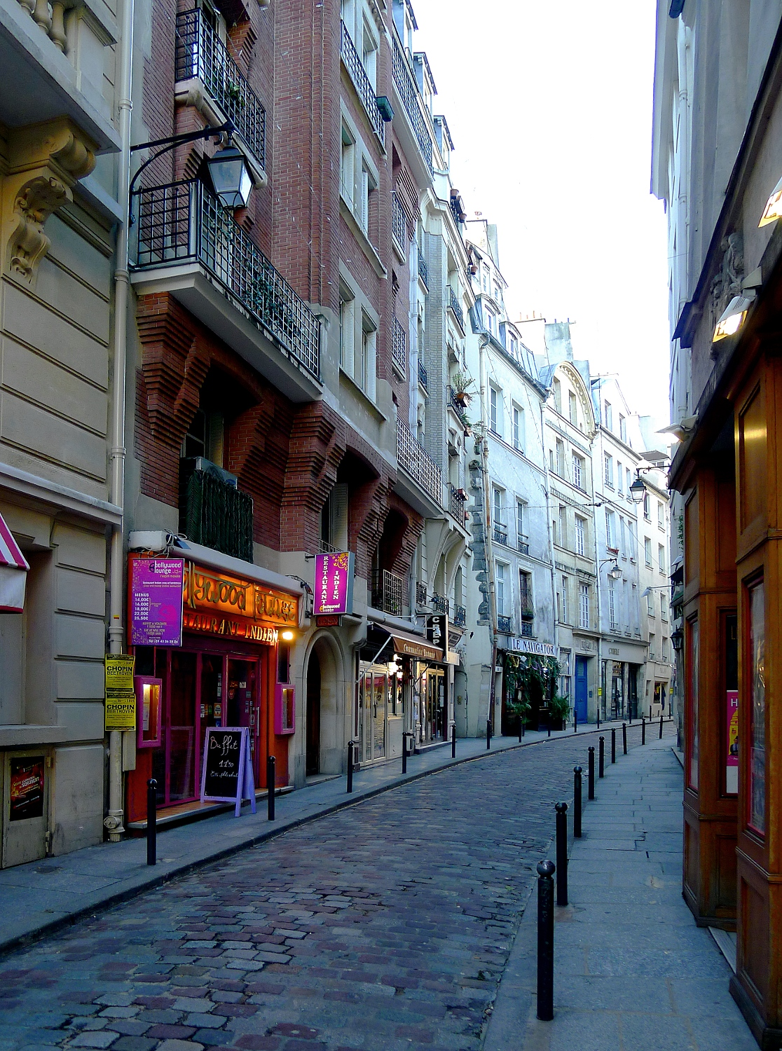 Galante street - Paris